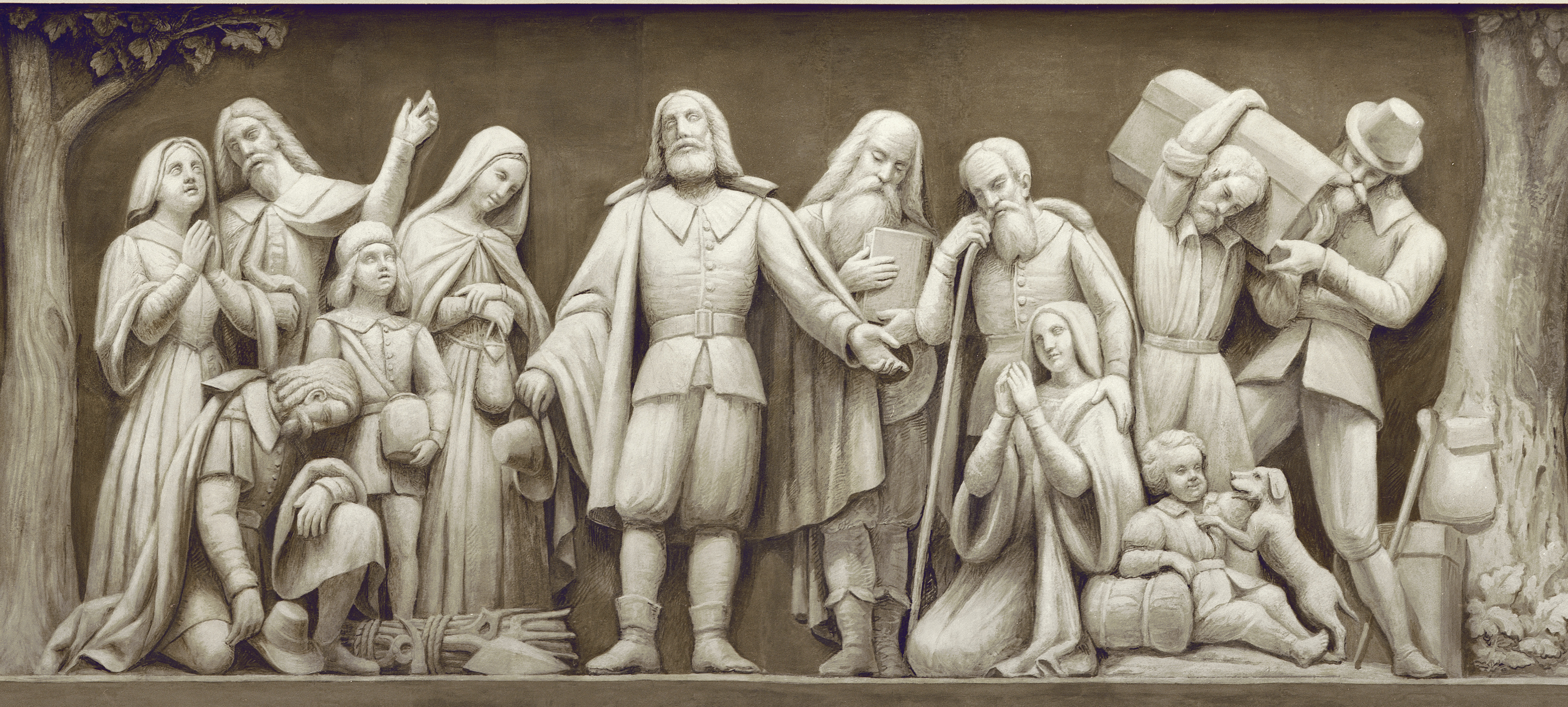 "Landing of the Pilgrims" - A group of Pilgrims, led by William Brewster, is shown giving thanks for their safe voyage after their arrival in Plymouth, Massachusetts.